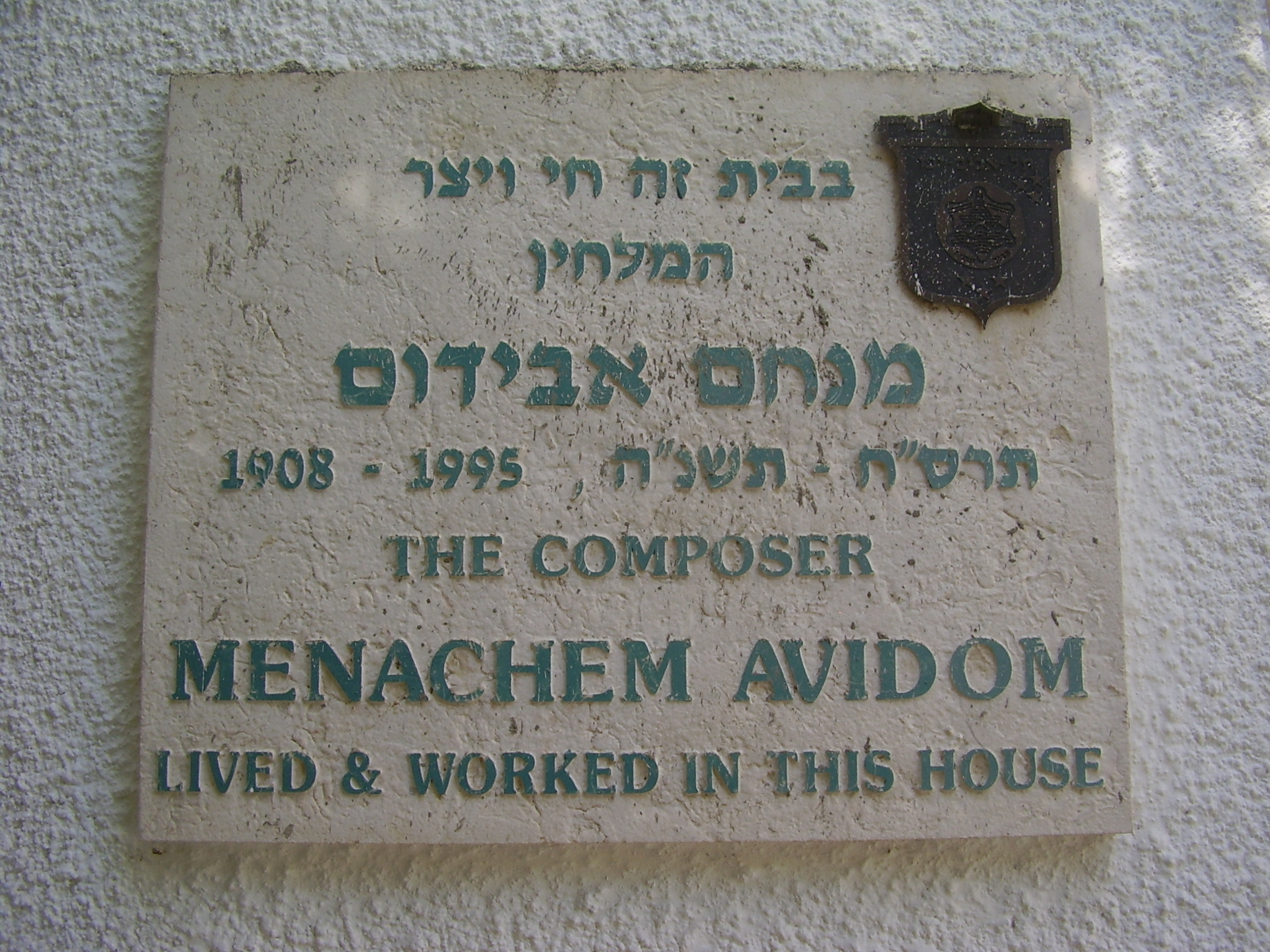 memorial plaque on the house of the composer menachem avidom in tel aviv לוחית זיכרון על ביתו של המלחין מנחם אבידום ברח' שטאנד 7 בתל אביב